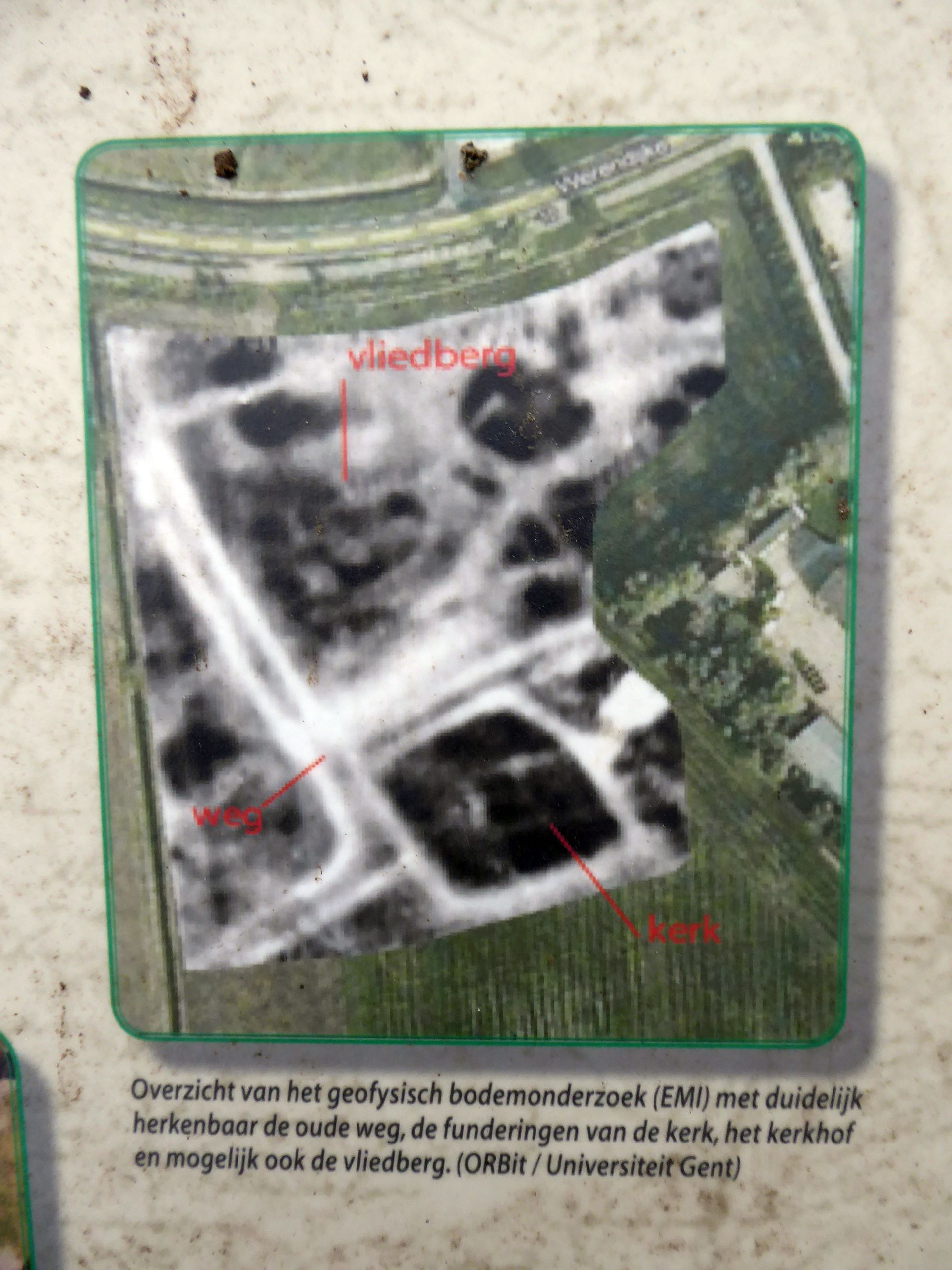 Werendijke, information sign